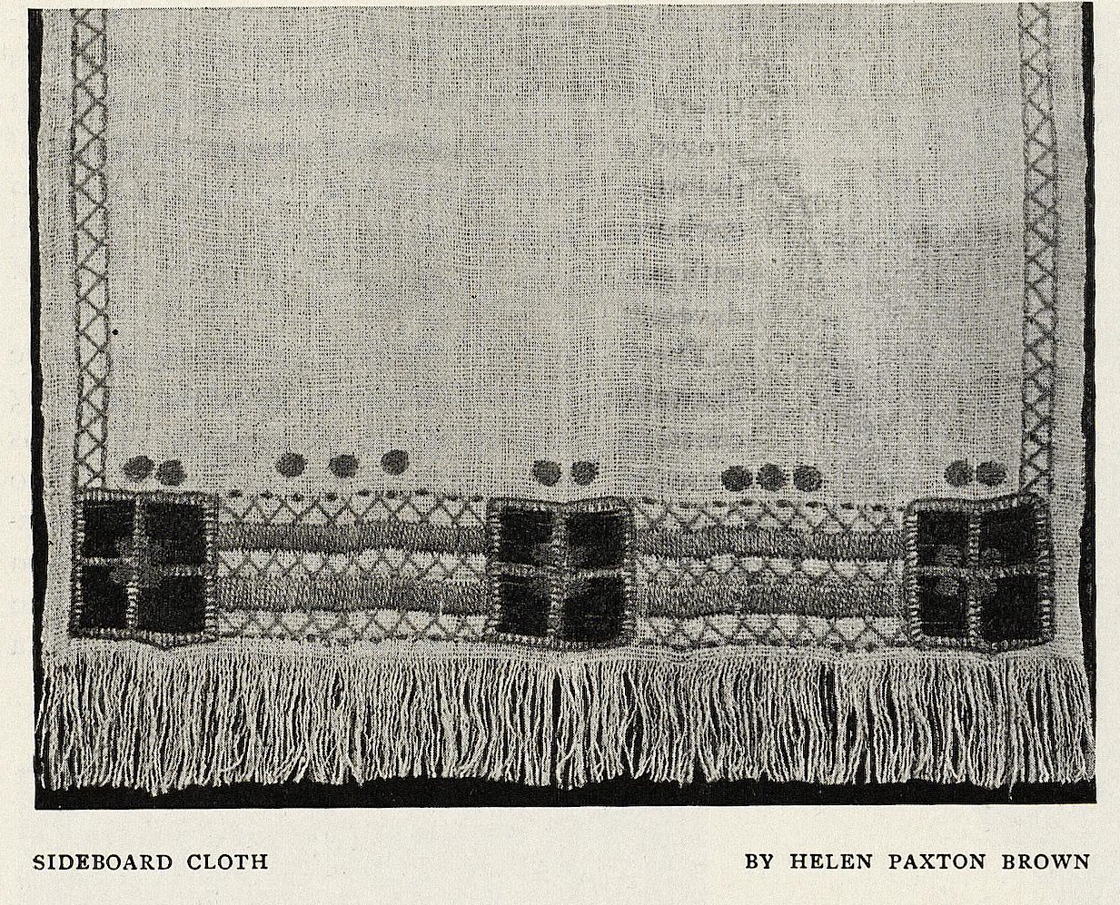 Sideboard Cloth by Helen Paxton Brown from Studio Magazine vol 50 (1910)